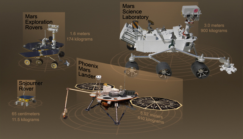 A comparison of sizes for the Sojourner rover (Mars Pathfinder), the Mars Exploration Rovers, the Phoenix lander and the Mars Science Laboratory. Figures are in metric units.